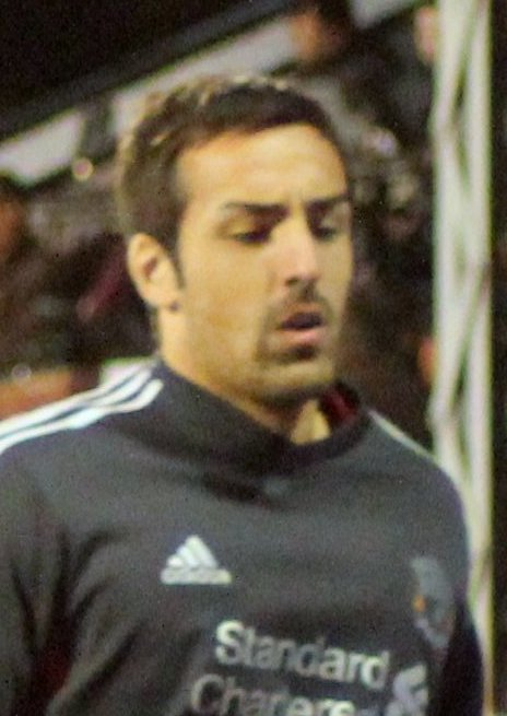 Sánchez Díaz warming up before the Fulham vs Liverpool game